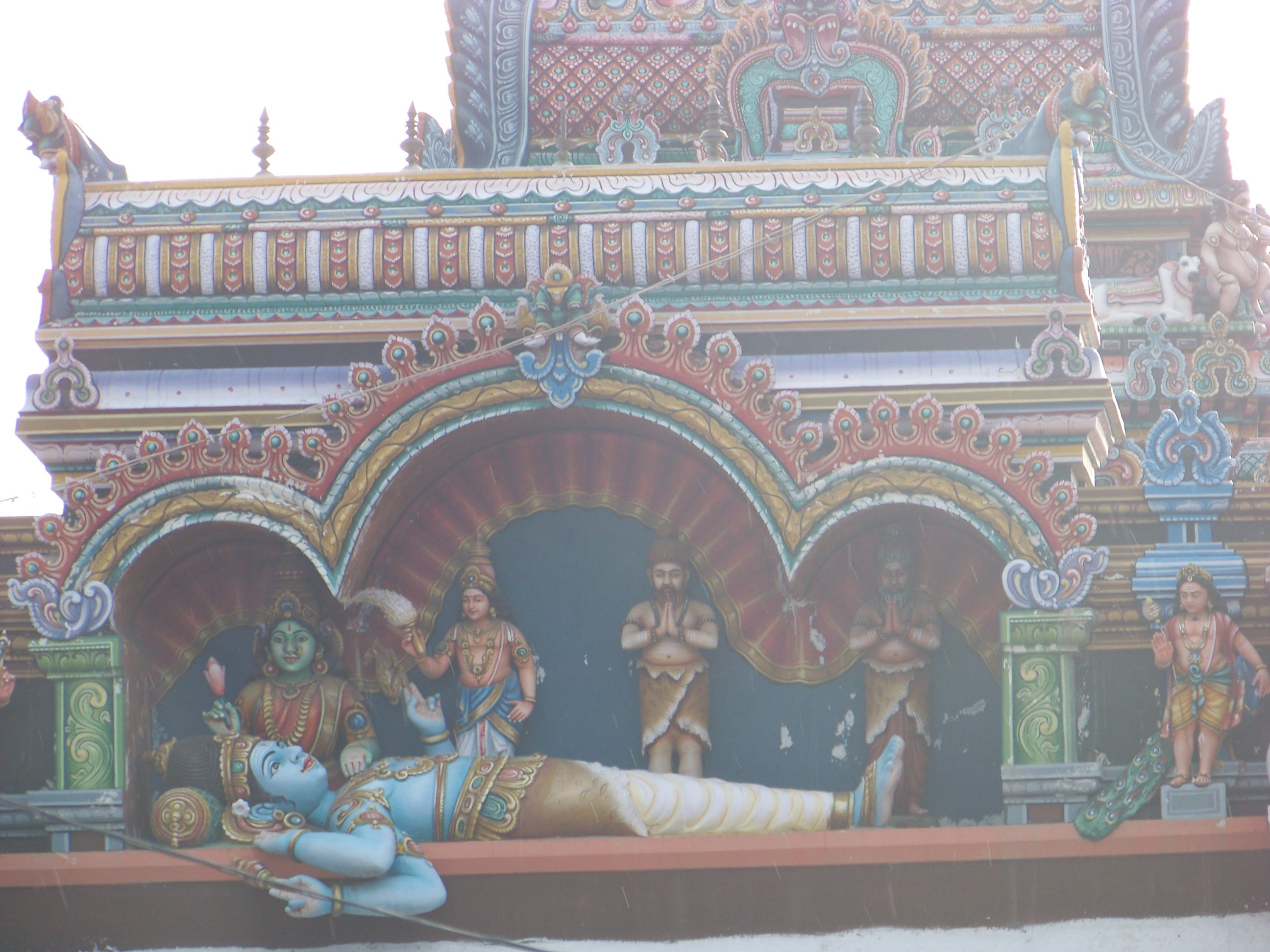 Shiva Temple at Suruttapalli, Andhra Pradesh (Near Uthukkottai)